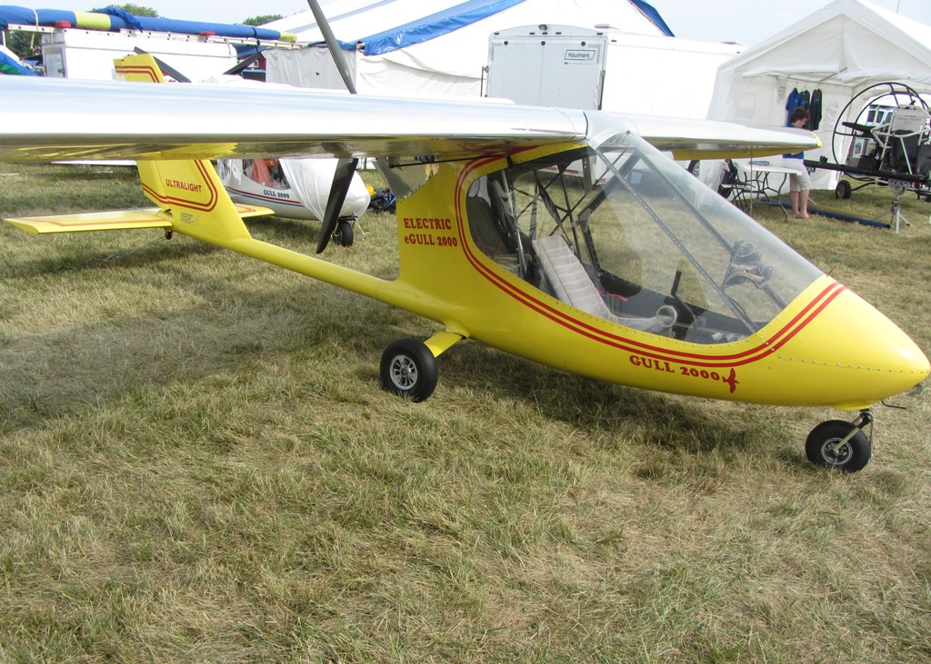 Electric Earthstar Thunder Gull